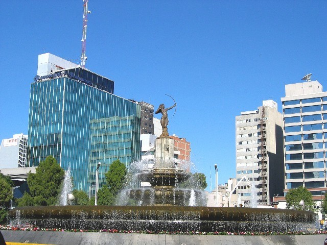 Roman goddess Diana´s fountain situated at Reforma Avenue in Mexico City.